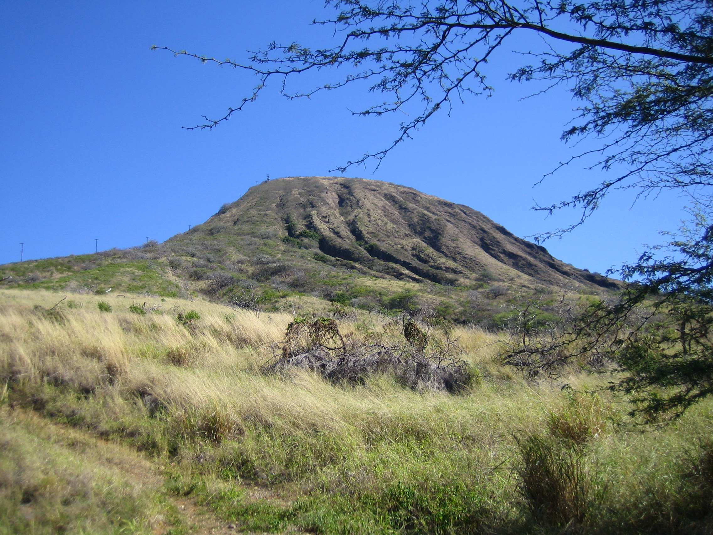 Koko Crater in Oahu, HI from the base of the old train trail.